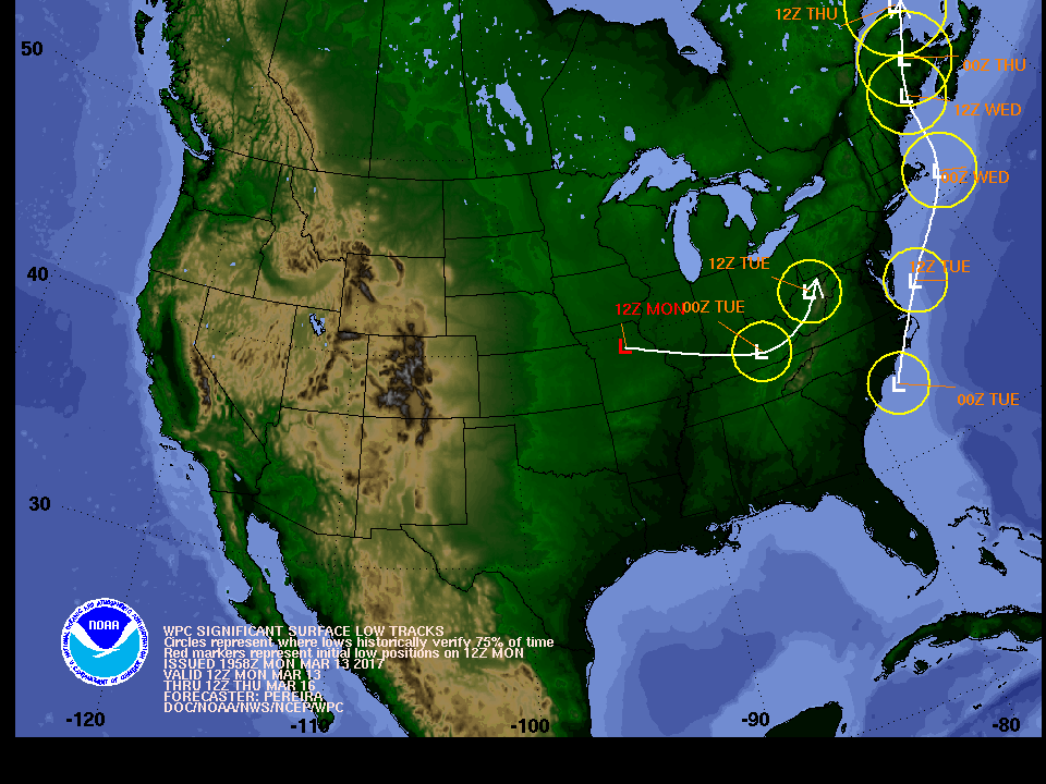 Map showing the projected paths of low-pressure areas that will contribute to a nor'easter off the East Coast on March 13–14, 2017.